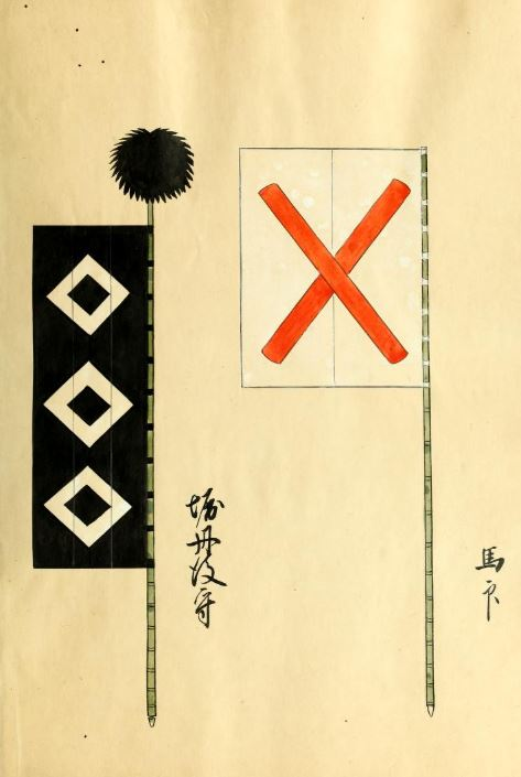 R: battle standard (red crossed poles on white ground), L: banner (triple white diamonds on black ground with black feather ornament)